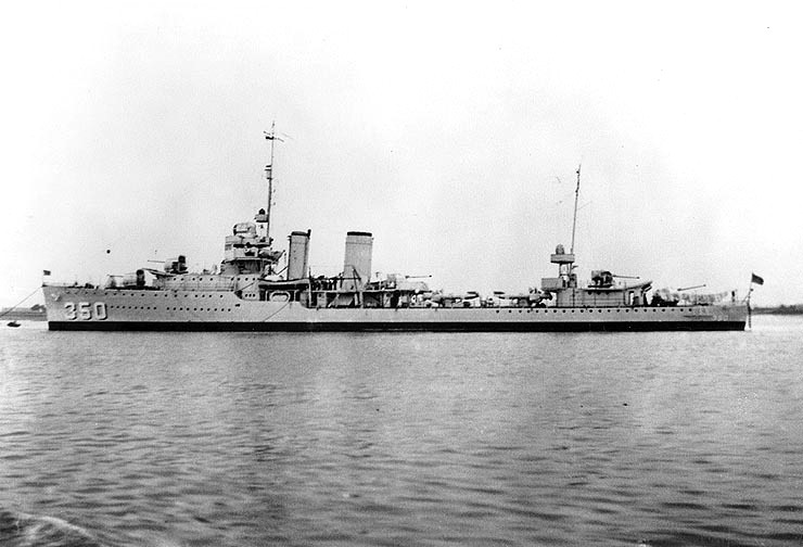 USS Hull moored in harbor, circa 1935-1937